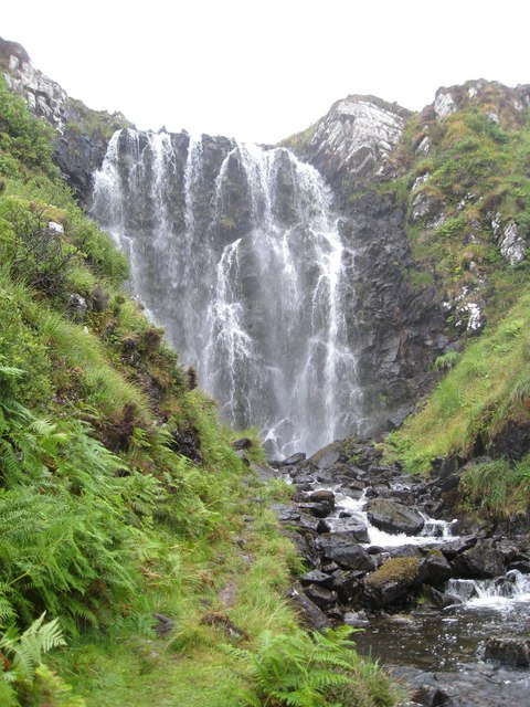 Clashnessie Waterfall